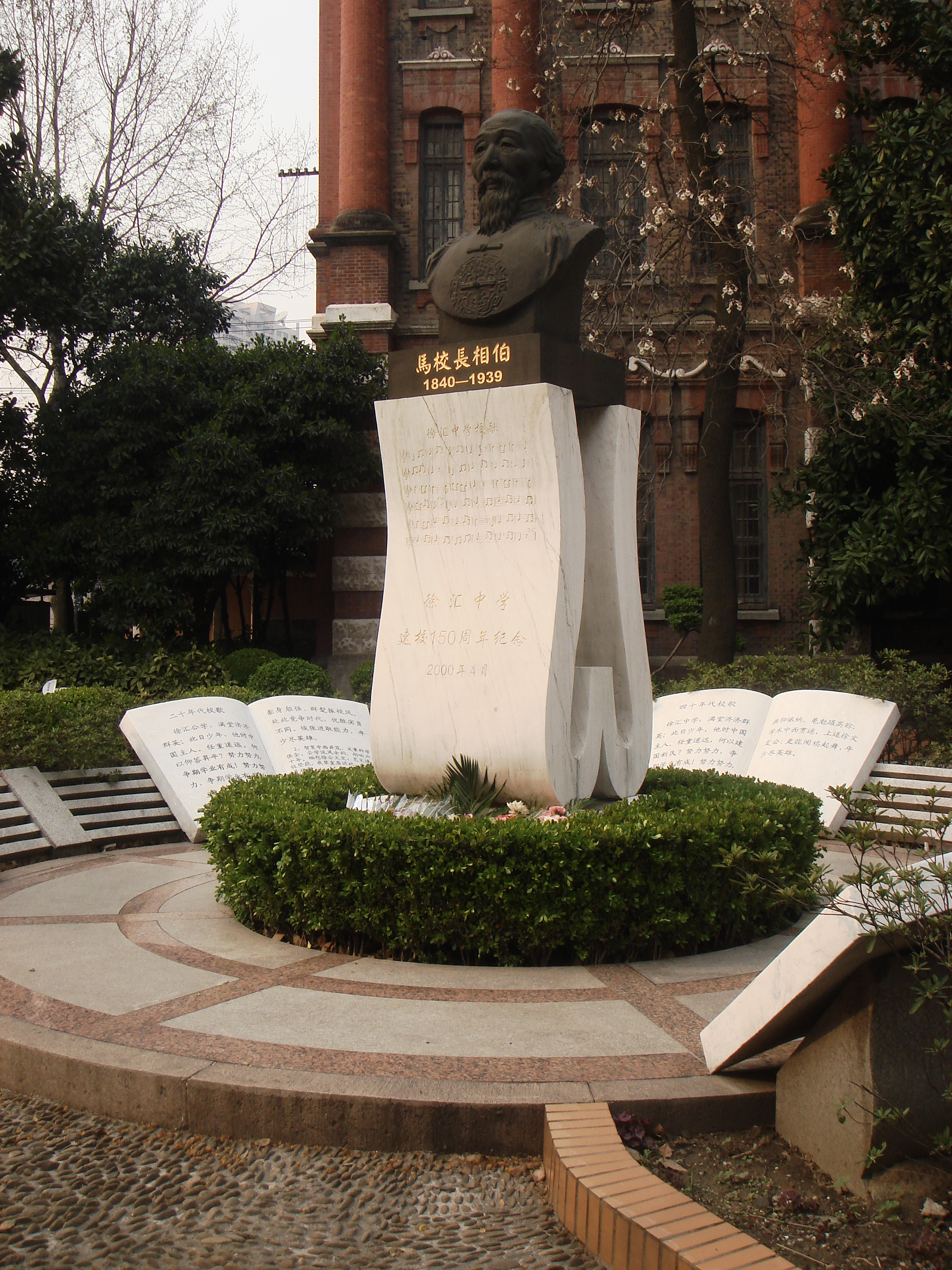 Statue of Ma Xiang Bo,former principal of Xuhui High School, taken on Qingming Festival.